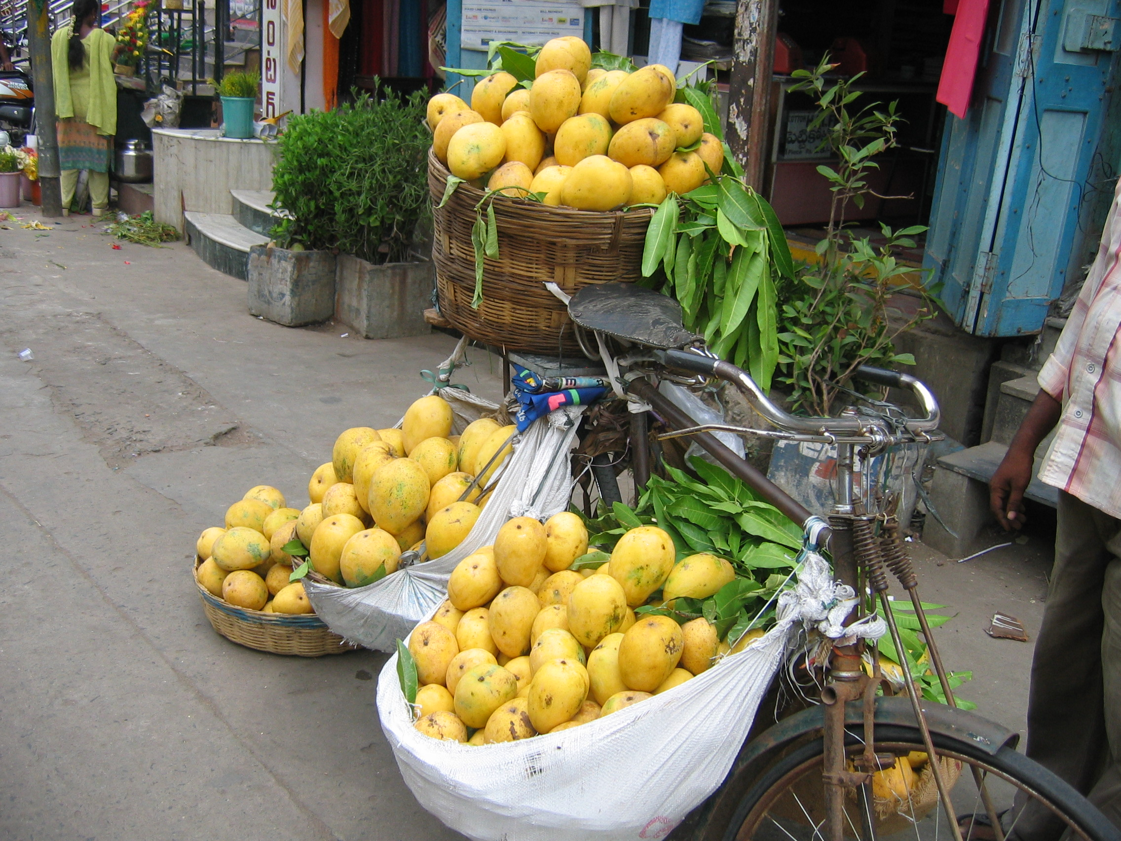 Partially ripened Banganpalli mangoes being sold on a Bicycle at Guntur City, India. These are available from the middle of May to June of the summer season.